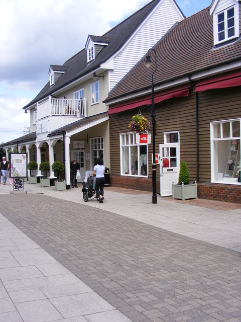 Part of Bicester Village outlet centre in Bicester, Oxfordshire